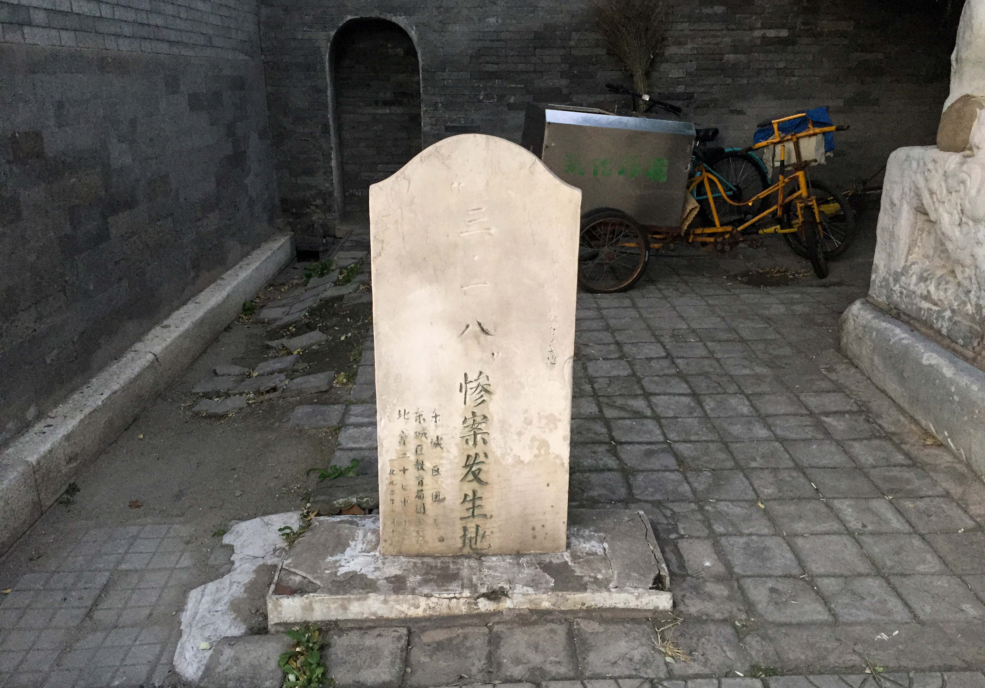 At the gate of Duan Qirui government headquarters.